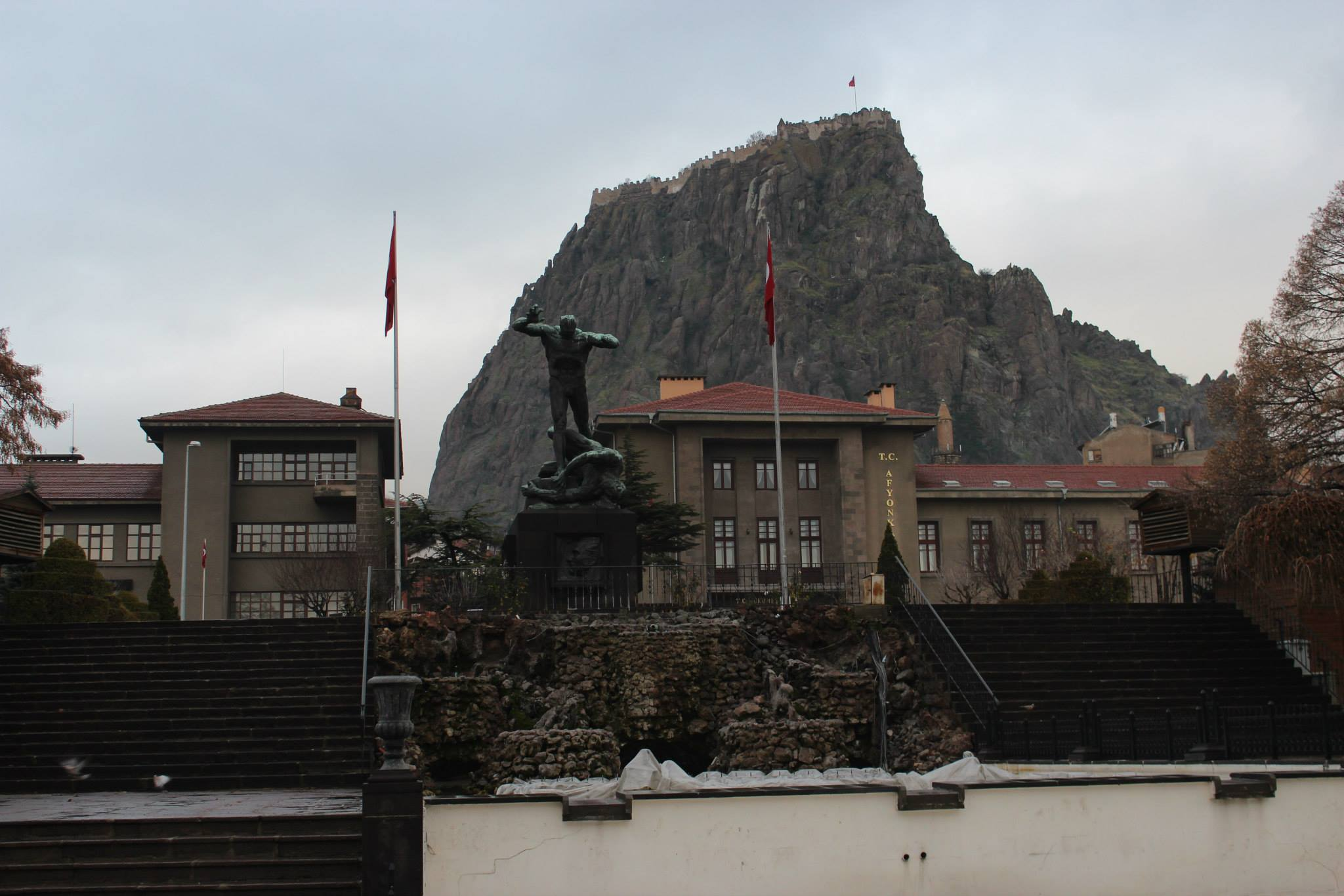 A view from Afyonkarahisar.